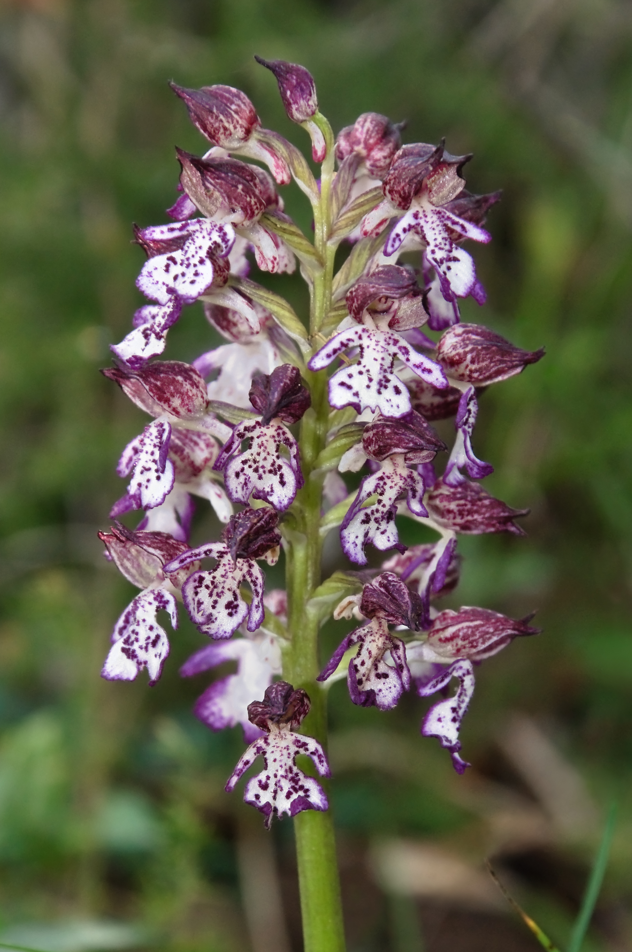 Lady orchid (Orchis purpurea), in the area around Saint-Étienne-de-Gourgas, Hérault, France.